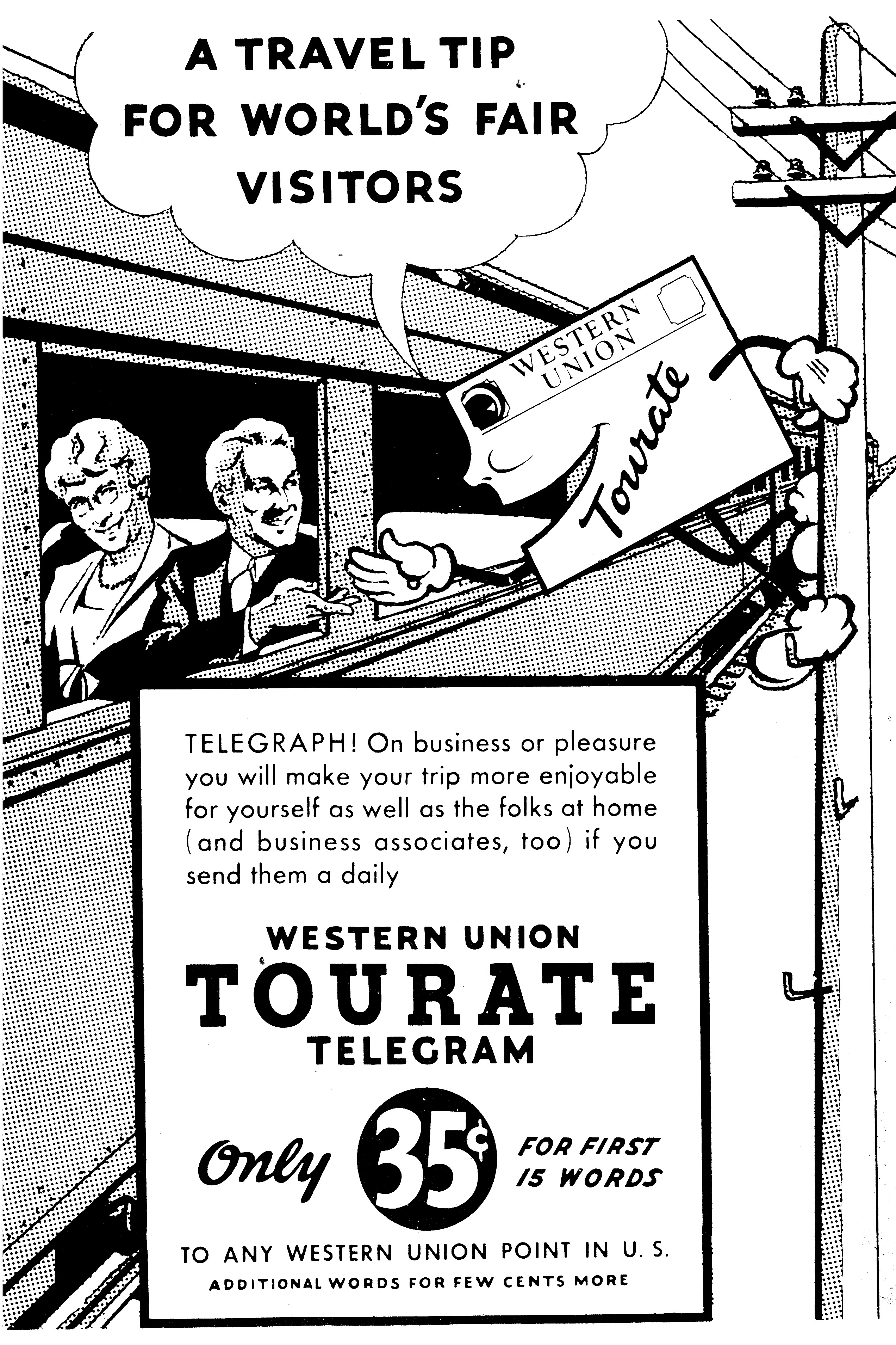 Advertisement for Western Union "TOURATE" Telegram service. 1939 Advertisement 'copy' reads: "A TRAVEL TIP FOR WORLD'S FAIR VISITORS WESTERN UNION TOURATE [Graphic] TELEGRAPH! On business or pleasure you will make your trip more enjoyable for yourself as well as the folks at home (and business associates, too) if you send them a daily WESTERN UNION TOURATE TELEGRAM Only 35¢ FOR FIRST 15 WORDS TO ANY WESTERN UNION POINT IN U.S. ADDITIONAL WORDS FOR FEW CENTS MORE "